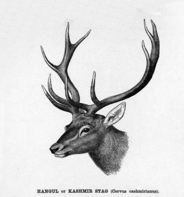 Cervus elaphus hanglu or Kashmir stag